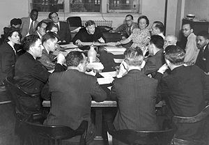 Francis J. Haas, new chairman of the Fair Employment Practices Commission, holds his first news conference, ca. 1942.